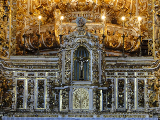 Interior view